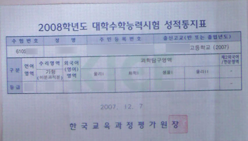 A report card of CSAT, university entrance exam in Korea